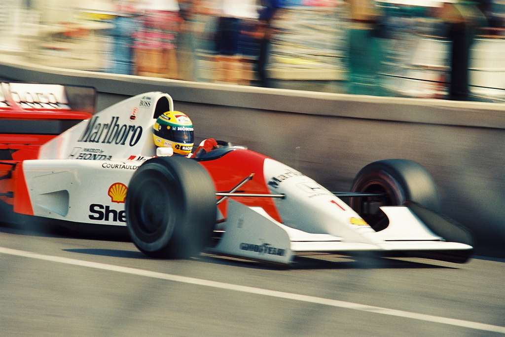 Ayrton Senna (McLaren) aproaching Poolside in Thursday practice session for the 1992 Monaco Grand Prix.